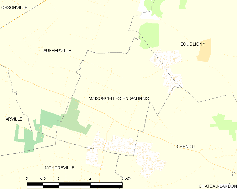 Map of French municipality Maisoncelles-en-Gâtinais